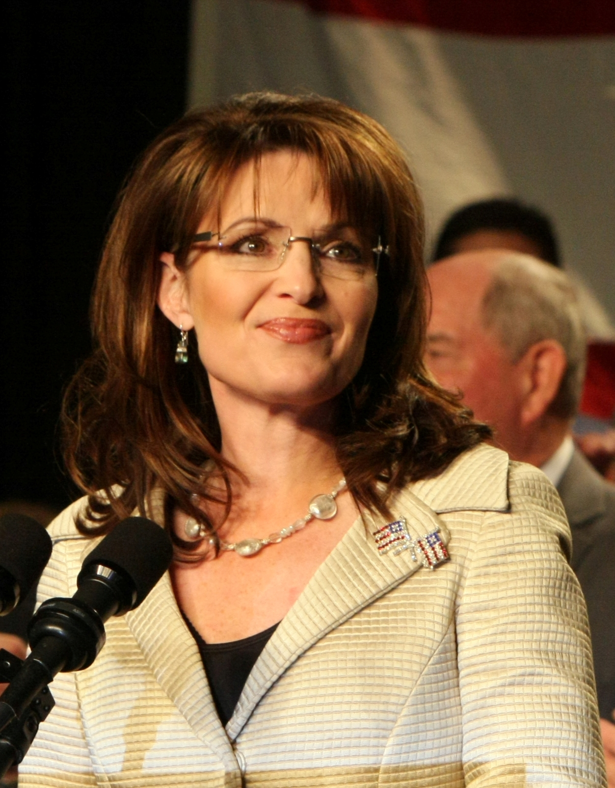 Sarah Palin in Savannah, Georgia, Dec 1, 2008 campaigning for the re-election of Saxy Chambliss.